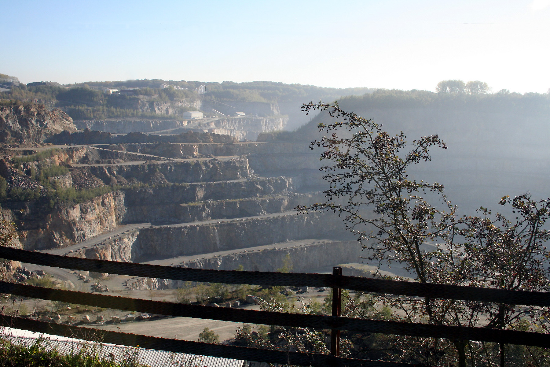 Lessines (Belgium), Chemin de Mons à Gand - Les Carrières Unies de Porphyre. Walon: Lèssine (Bèljike), Vôye di Mons’ a Gand – Lès Carîres Unies di Pôrfir.